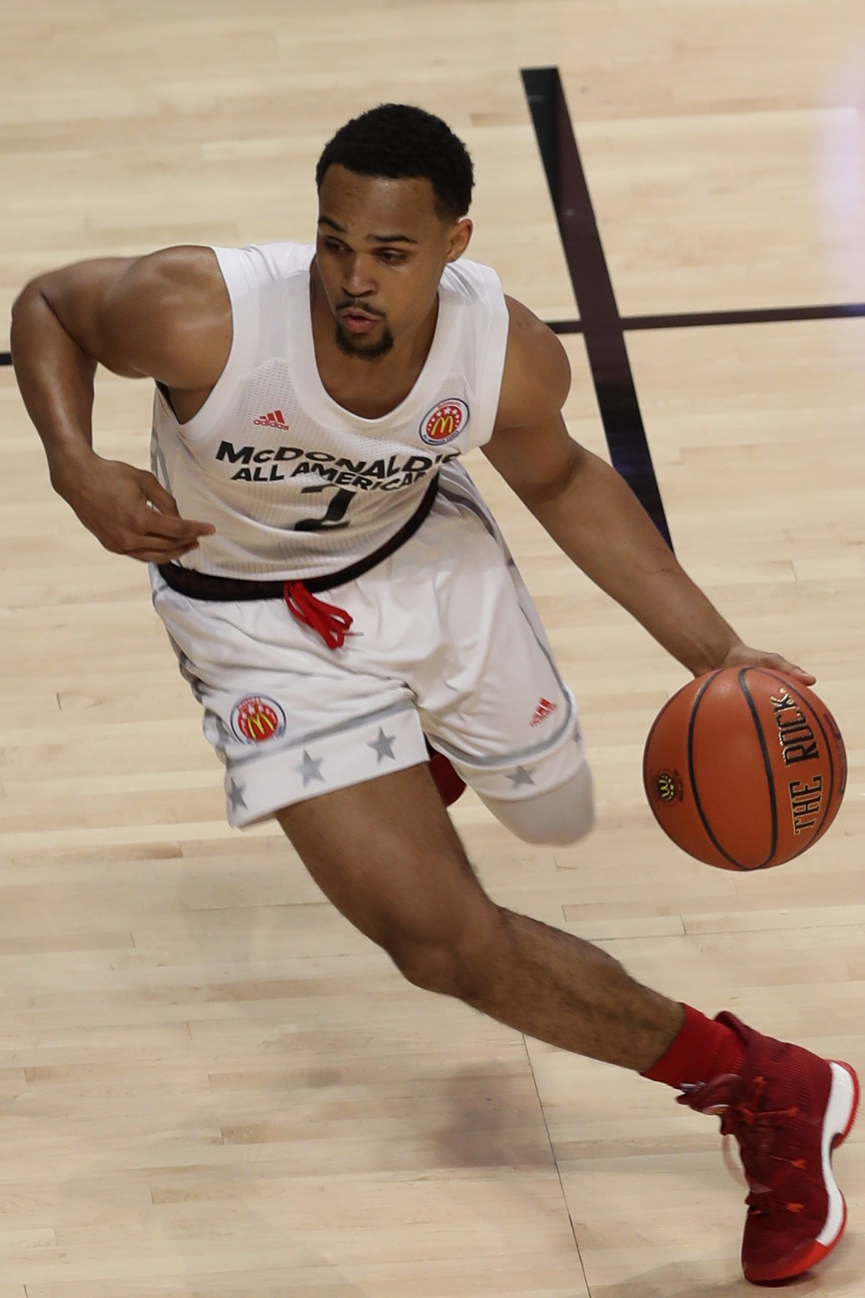 Gary Trent Jr. at the w:2017 McDonald's All-American Boys Game